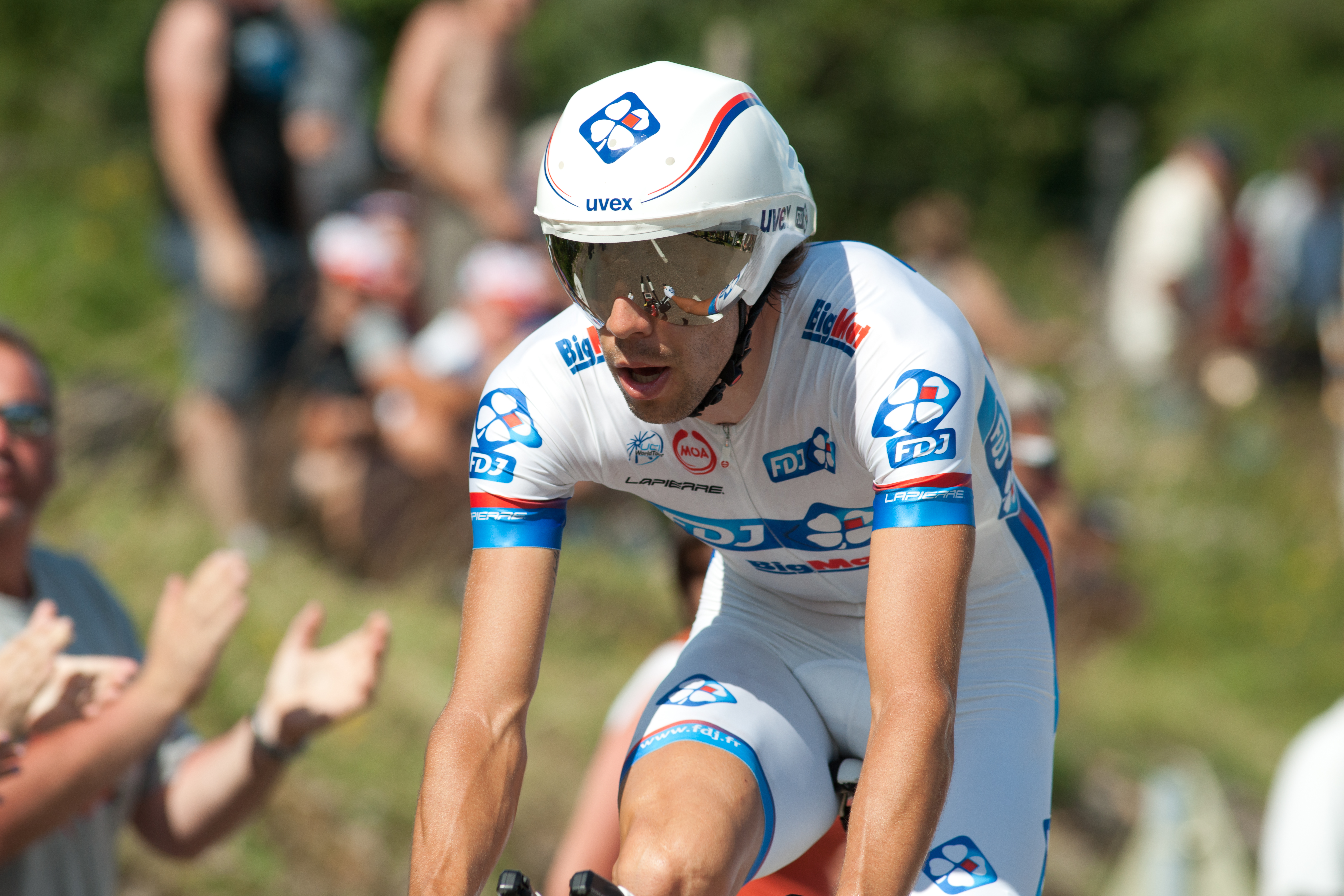 Thibaut Pinot at the individual time trial between Arc-et-Senans and Besançon (Stage 9 of 2012 Tour de France)